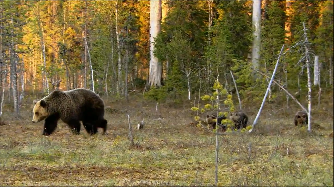 Bear in Finland